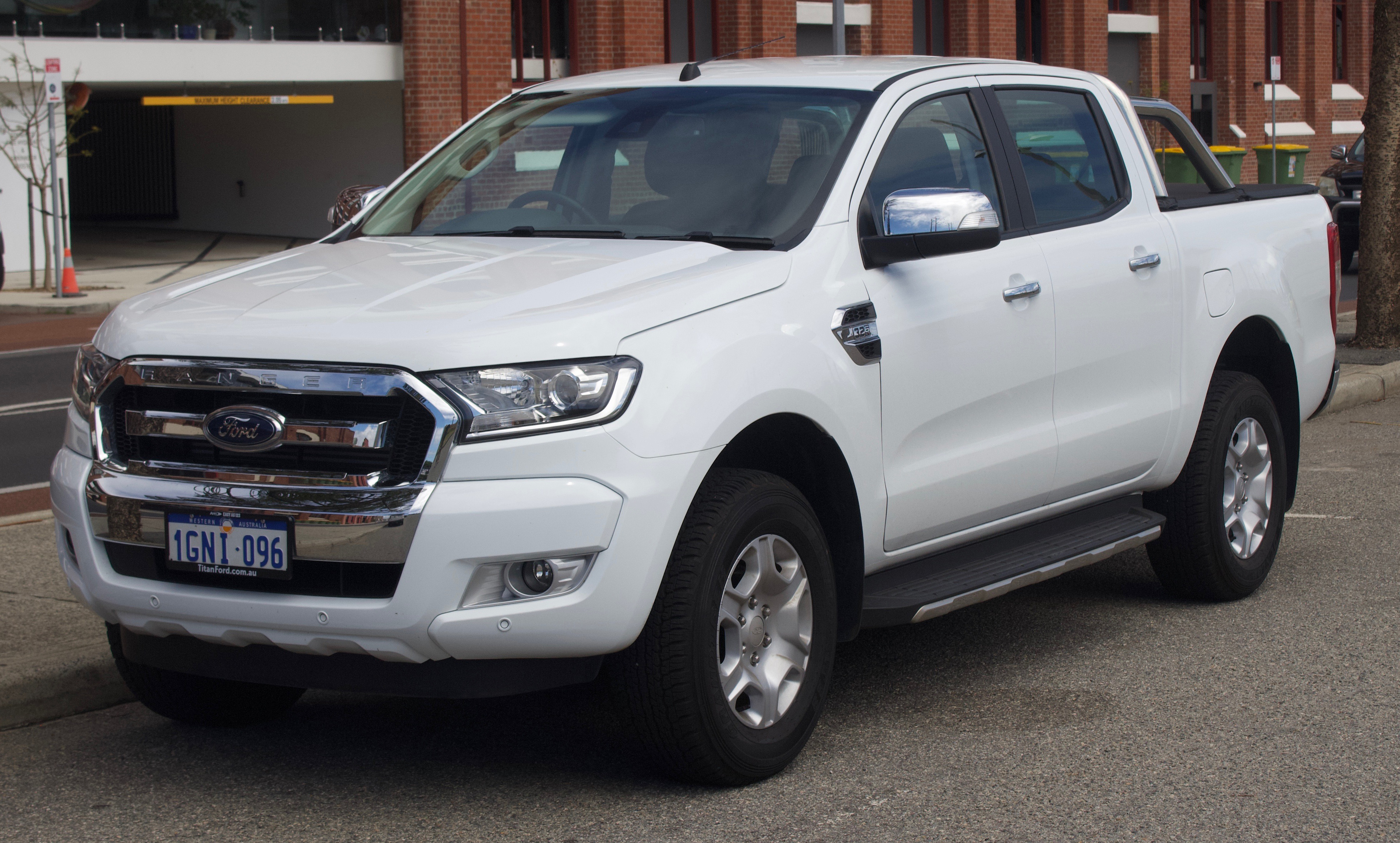 2018 Ford Ranger (PX) XLT 4WD 4-door utility. Photographed in Fremantle, Western Australia, Australia.